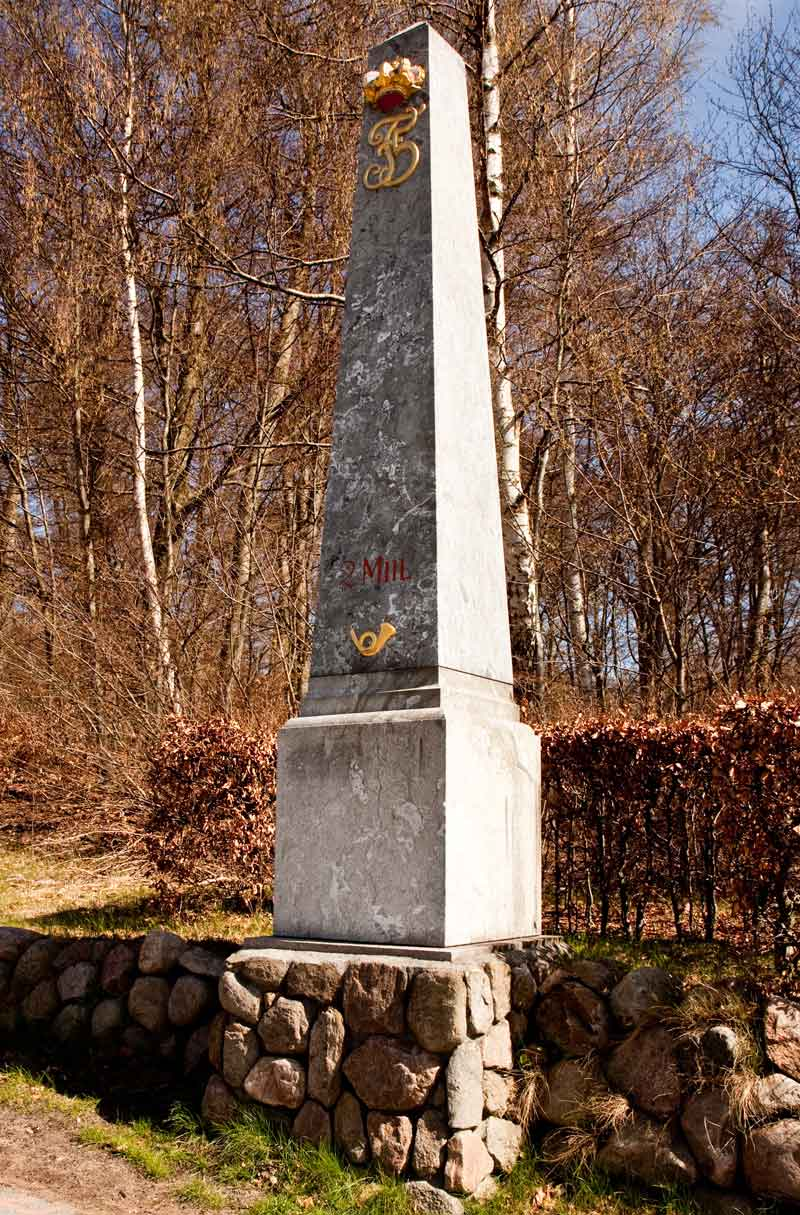 Old mileslestone, situated on Kongevejen, Geels Bakke, two danish mile (approximately 15 kilometres) north of Copenhagen . Errected by king Frederik VI (1808-1839)